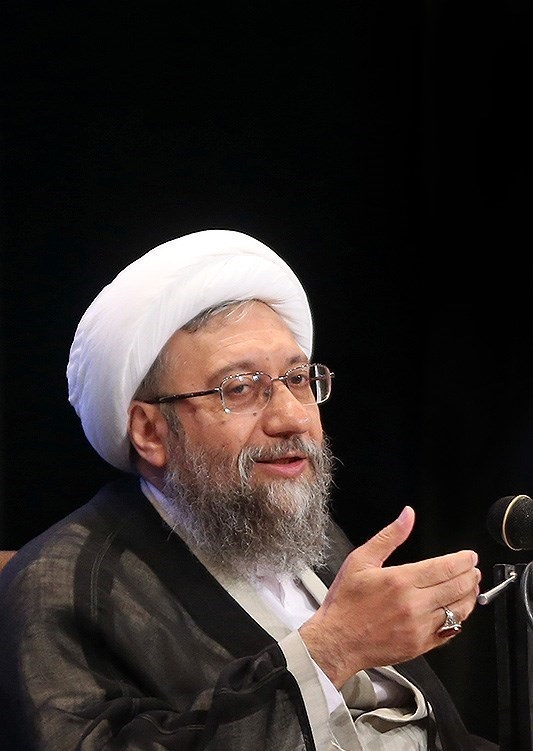 Iran's Chief Justice, Sadeq Larijani at the Islamic Human Rights Conference